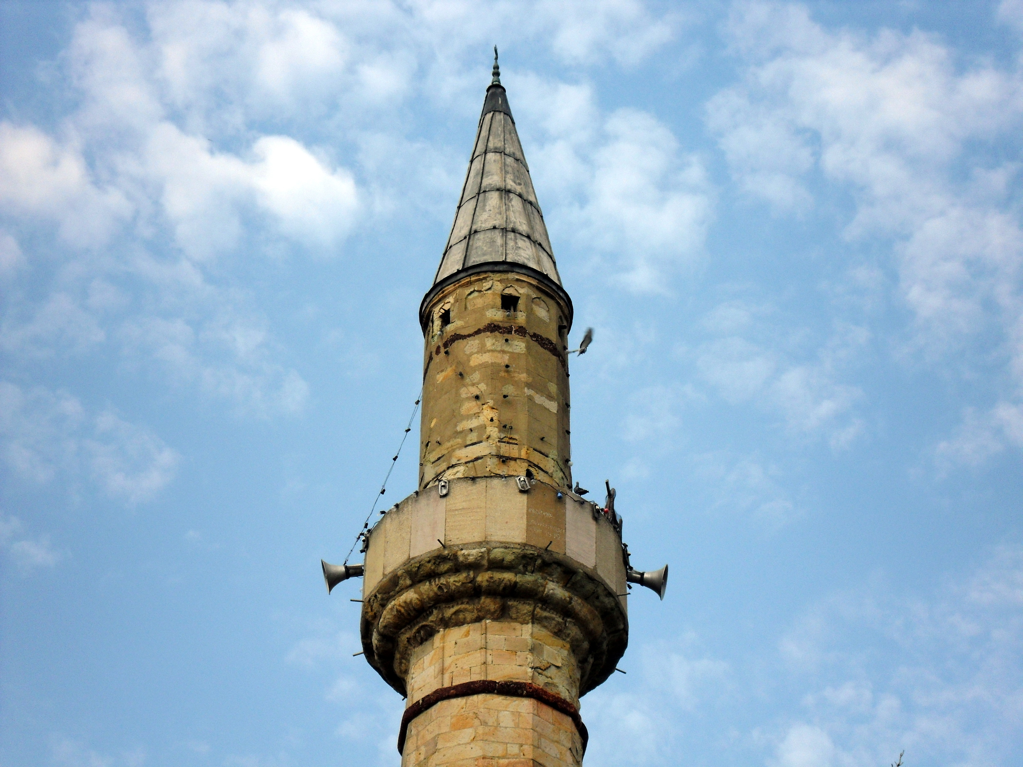 Mosque in Prishtina